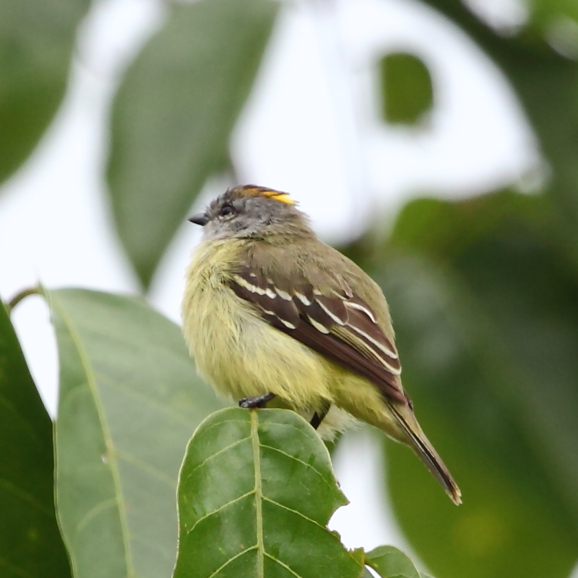 Yellow-crowned Tyrannulet at Apiacás - MT - Brazil